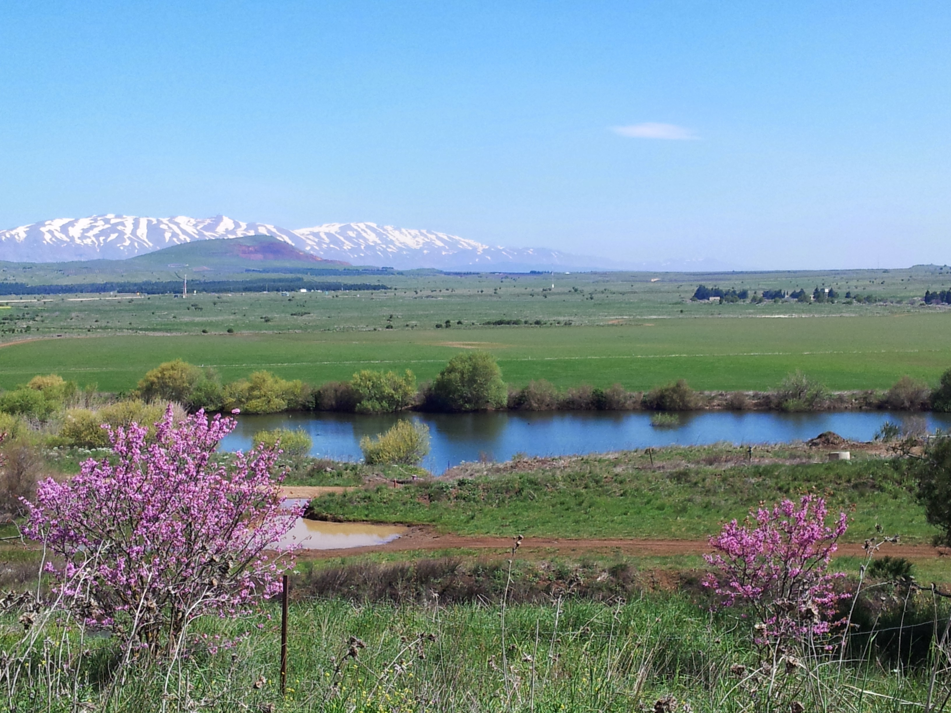 Geography of the Golan Heights